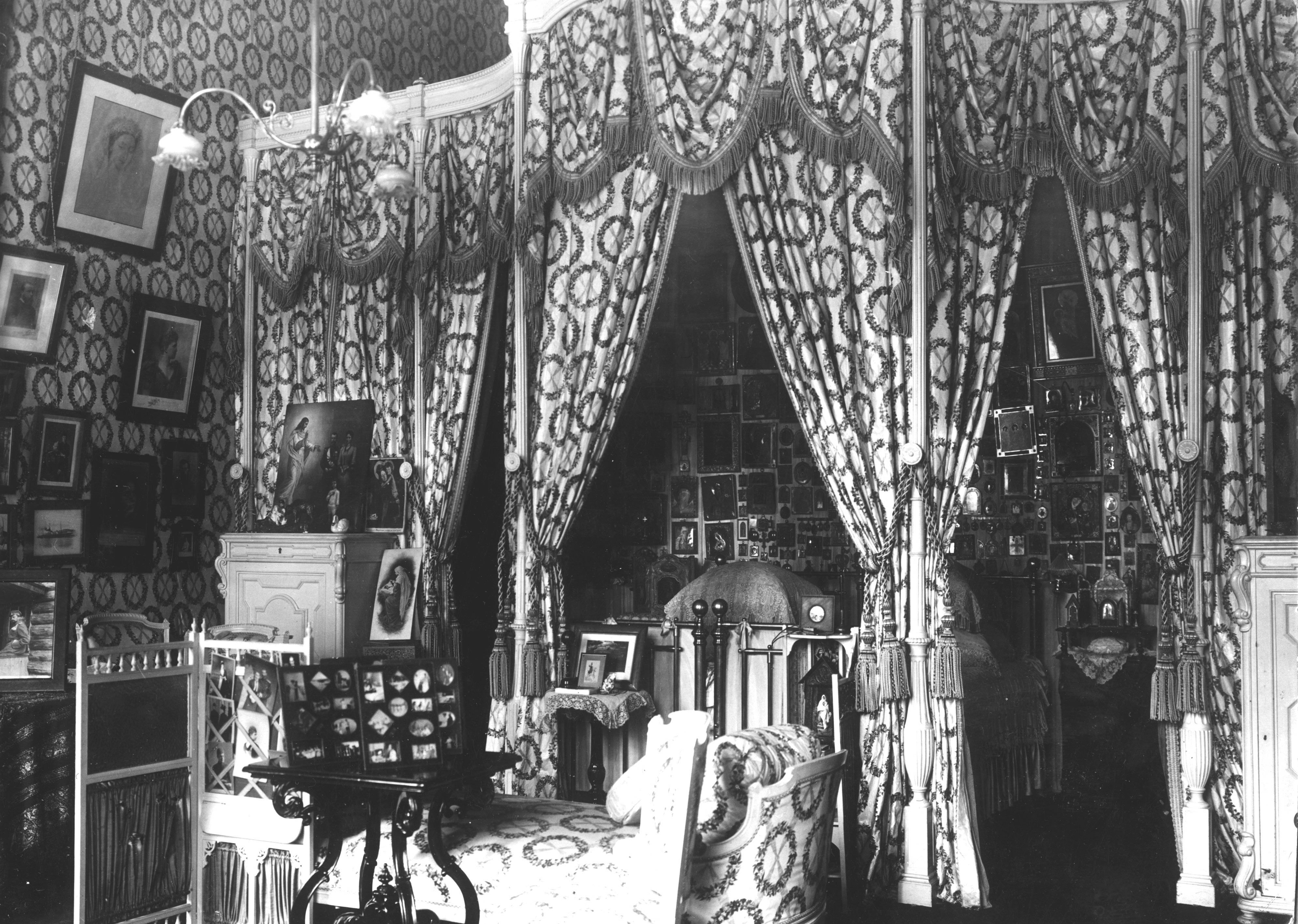 Alexander Palace - Imperial Bedroom